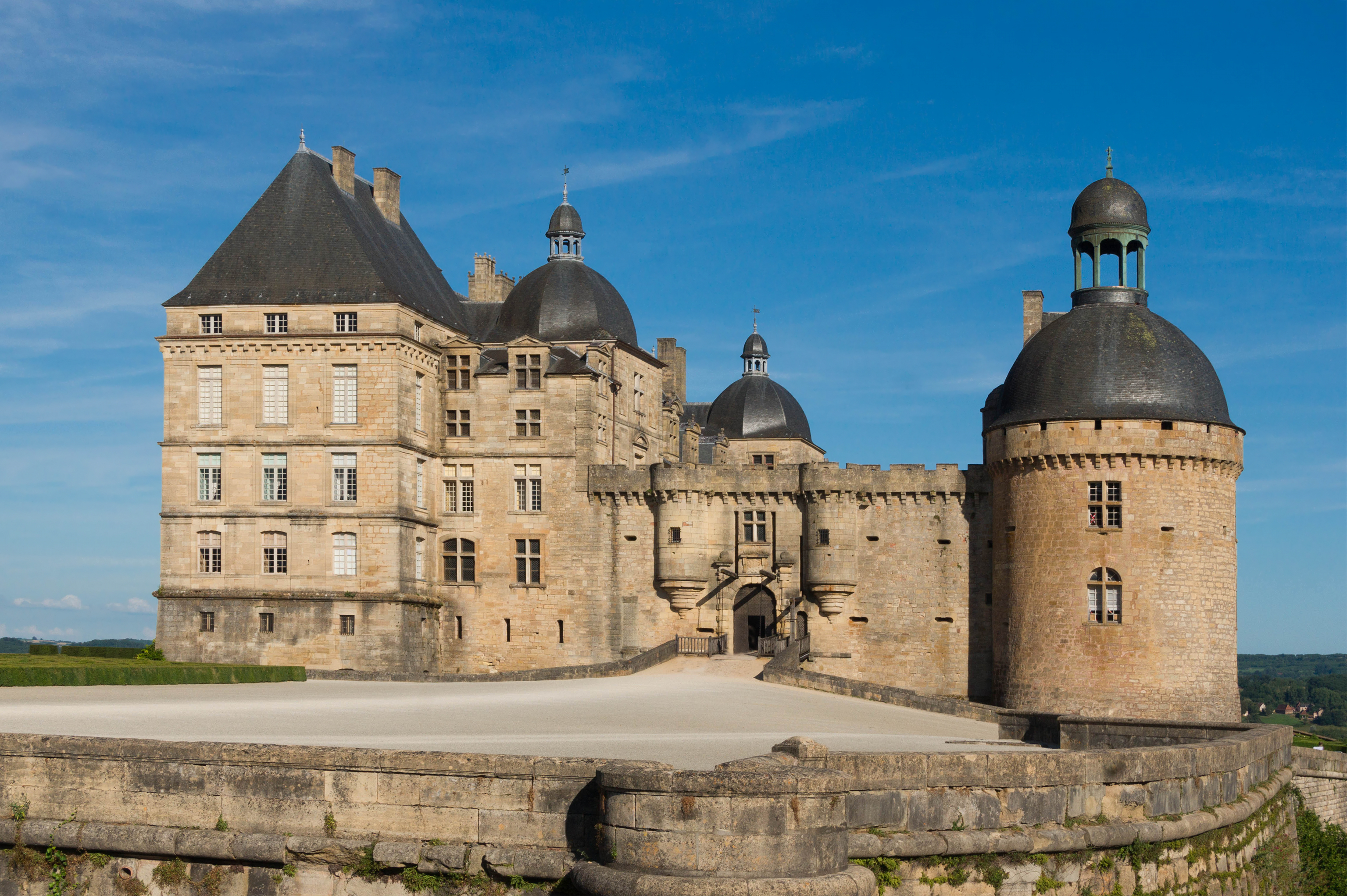 Château de Hautefort, Dordogne, France.